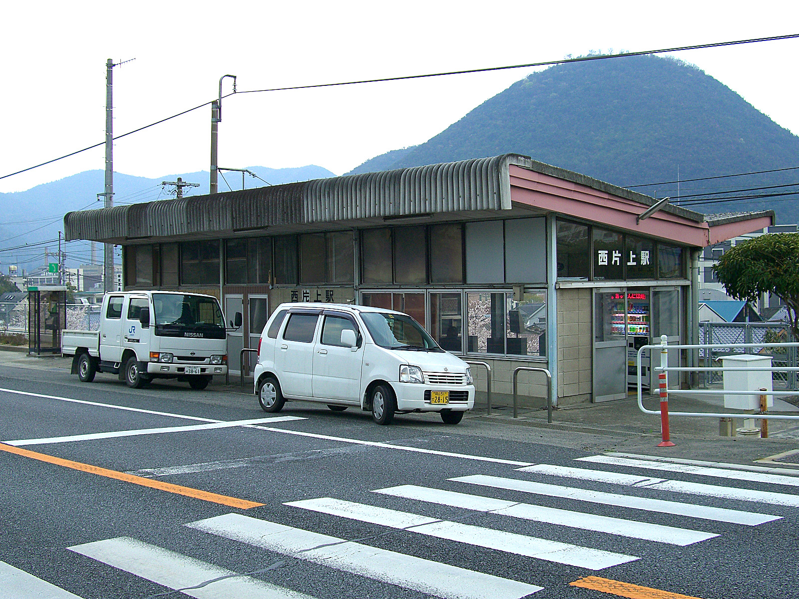 West Japan Railway Akō Line Nishi-Katakami Station Station Building 西日本旅客鉄道 赤穂線 西片上駅 駅舎